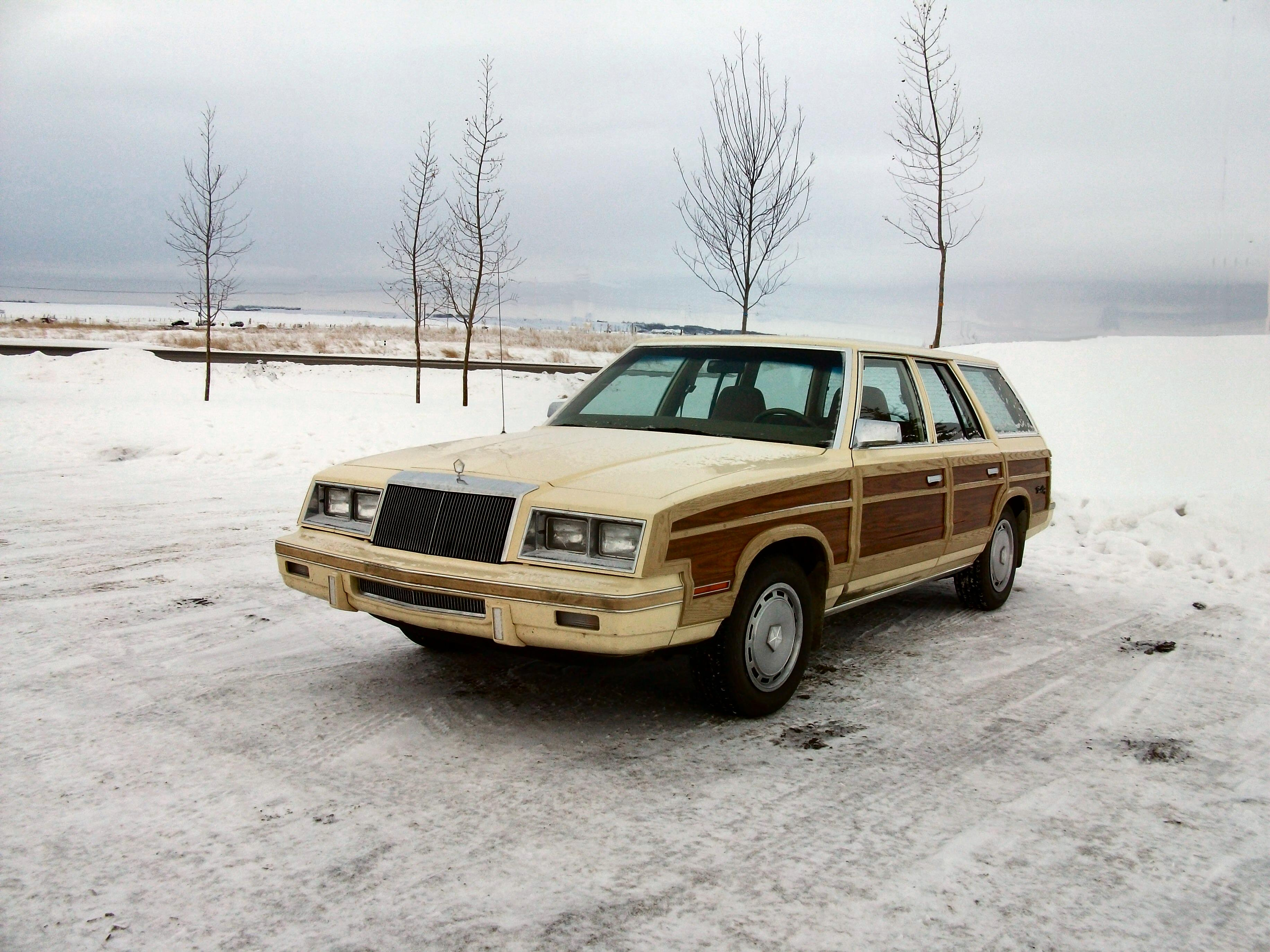 Chrysler LeBaron Town and Country station wagon - K-car edition - I love the wood paneling.